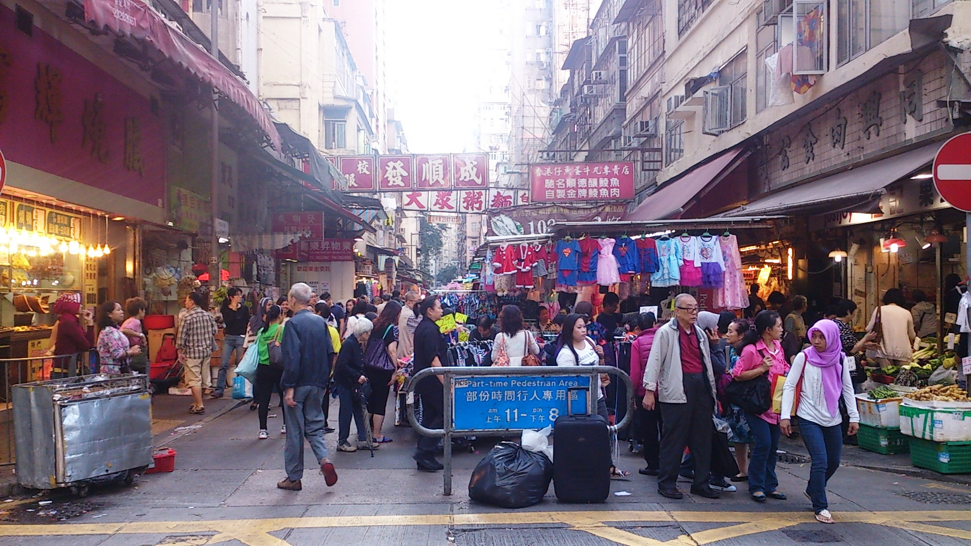 Marble Road near Shu Kuk Street